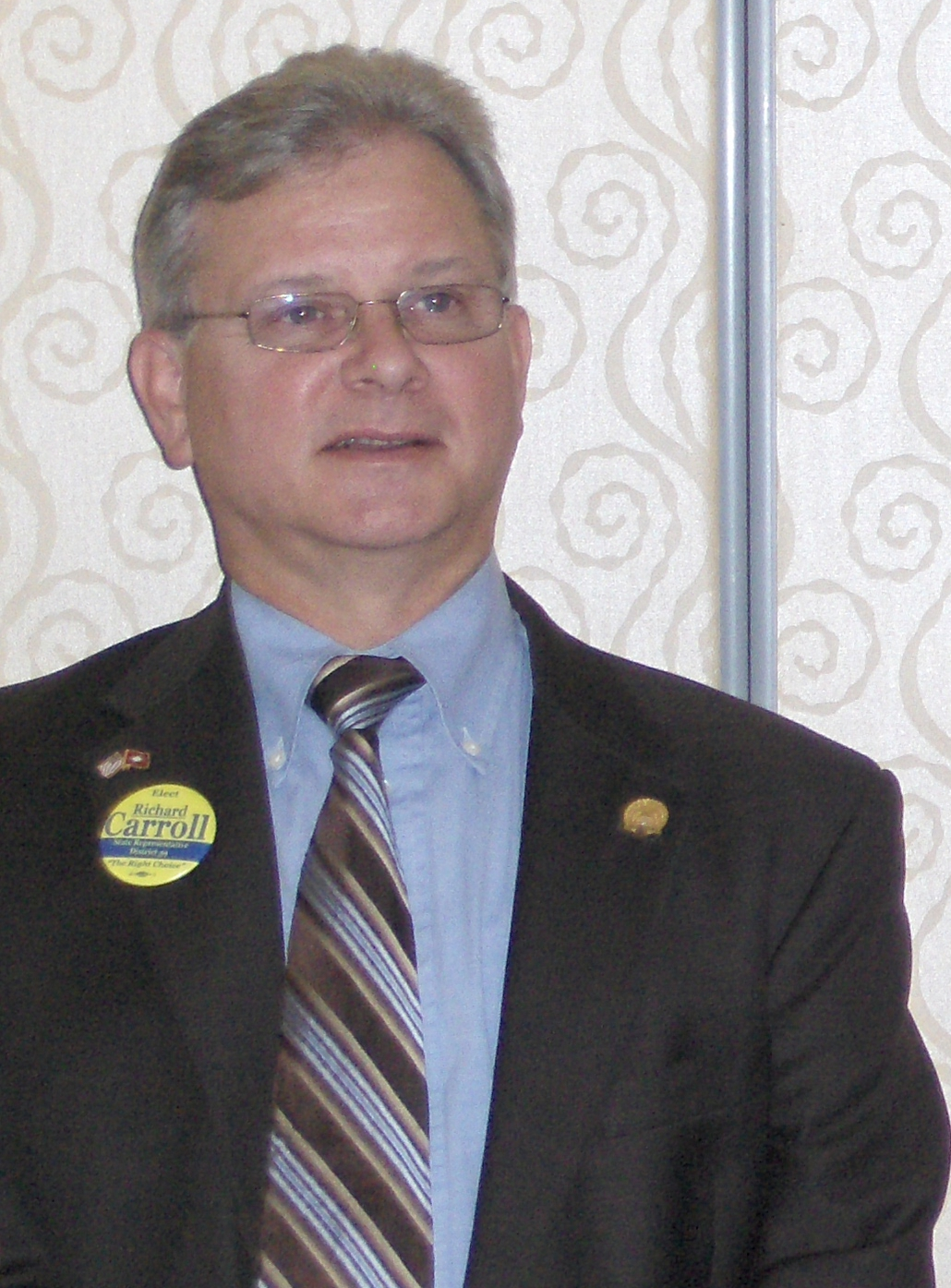 Arkansas State Rep. Richard Carroll in 2010. Photo courtesy of aflcio, via Flickr. This file has been extracted from another file: Joyce Elliott and Richard Carroll 2010.jpg